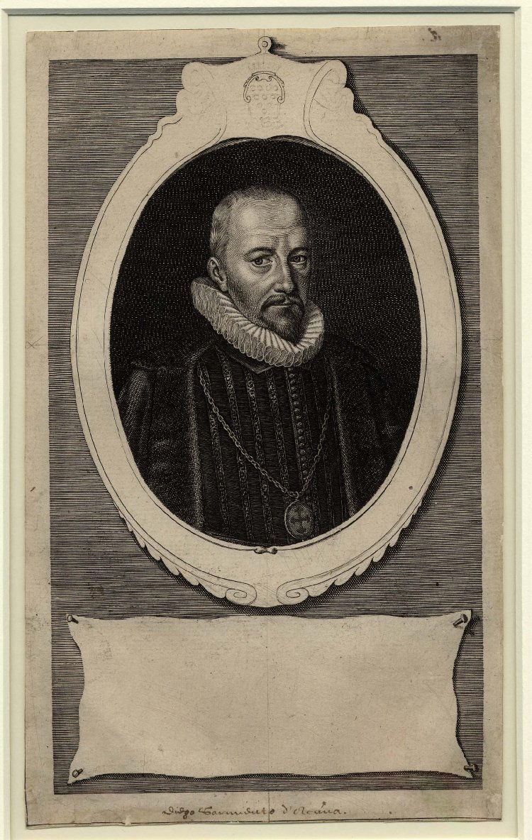 "Effigies eximii viri Dni Didaci Salmienti de Acuna, Comitis de Gondomare," portrait of the 1st Count of Gondomar, engraving, by the British engraver Simon de Passe. 195 mm x 118 mm. Courtesy of the British Museum, London.